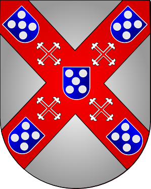 Arms of the Portuguese Dukes of Cadaval. Made by JSobral